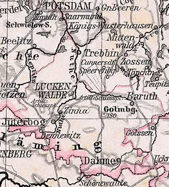 Detail from a map of Brandenburg.